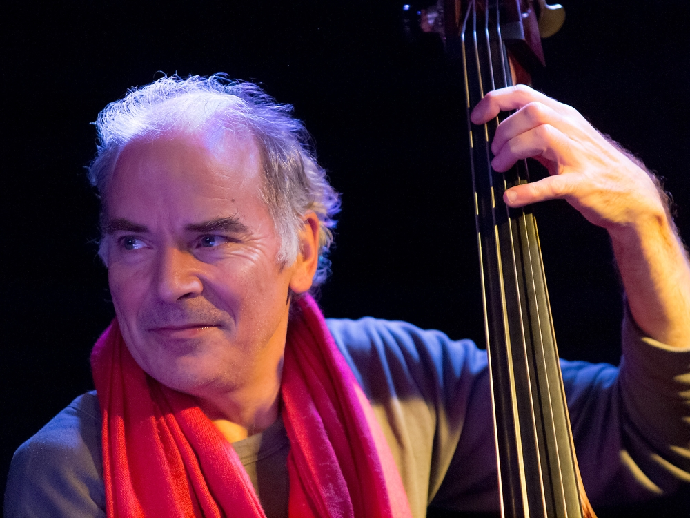 Peter Herbert, Jazz double-bassist; Picture taken in Jazz Club Unterfahrt, Munich/Bavaria